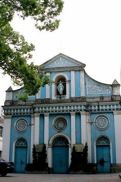 Photograph of the Catholic church in Hangzhou, China.